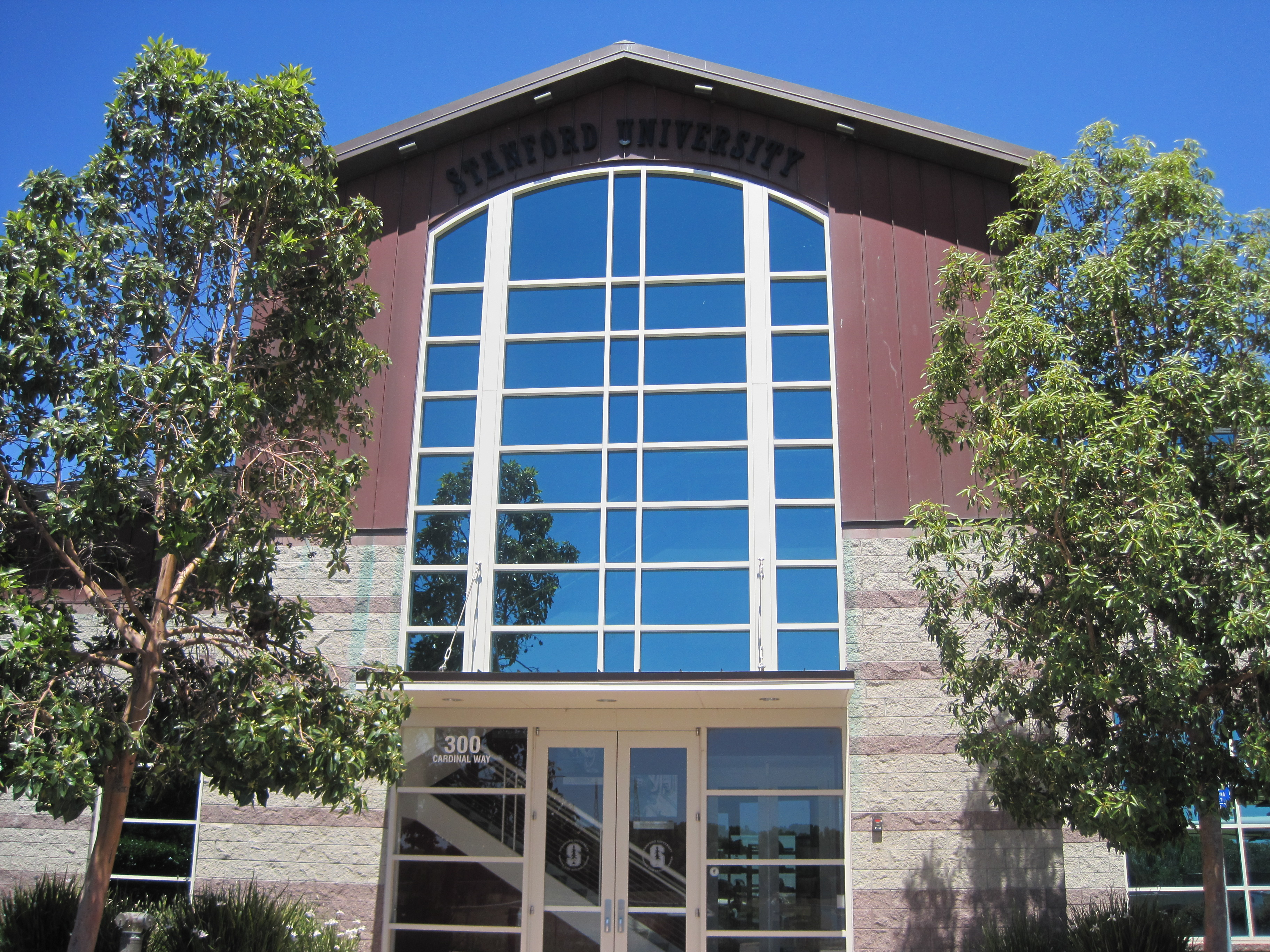 The Stanford Rowing and Sailing Center along Redwood Creek in Redwood City, California.